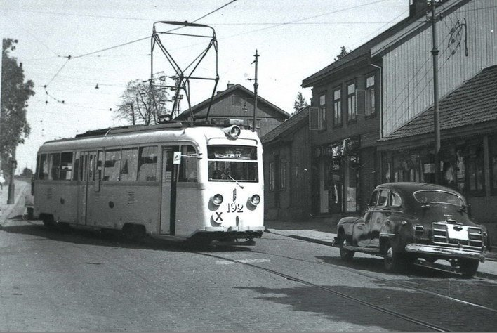 Gullfisk tram no. 192 in Strømsveien, between 1950 and 1955 on the Vålerenga Line.